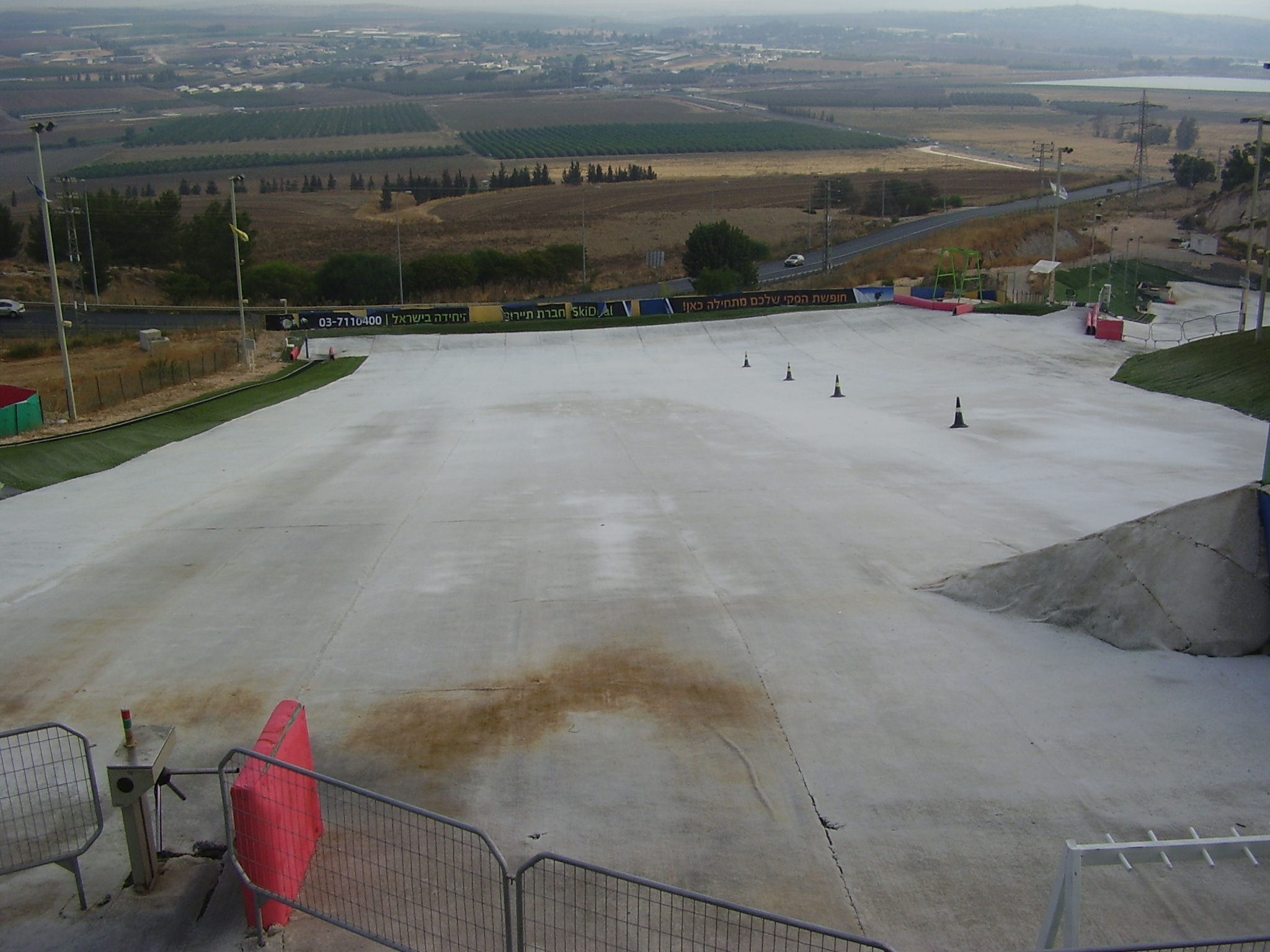 Ski site in Gilboa